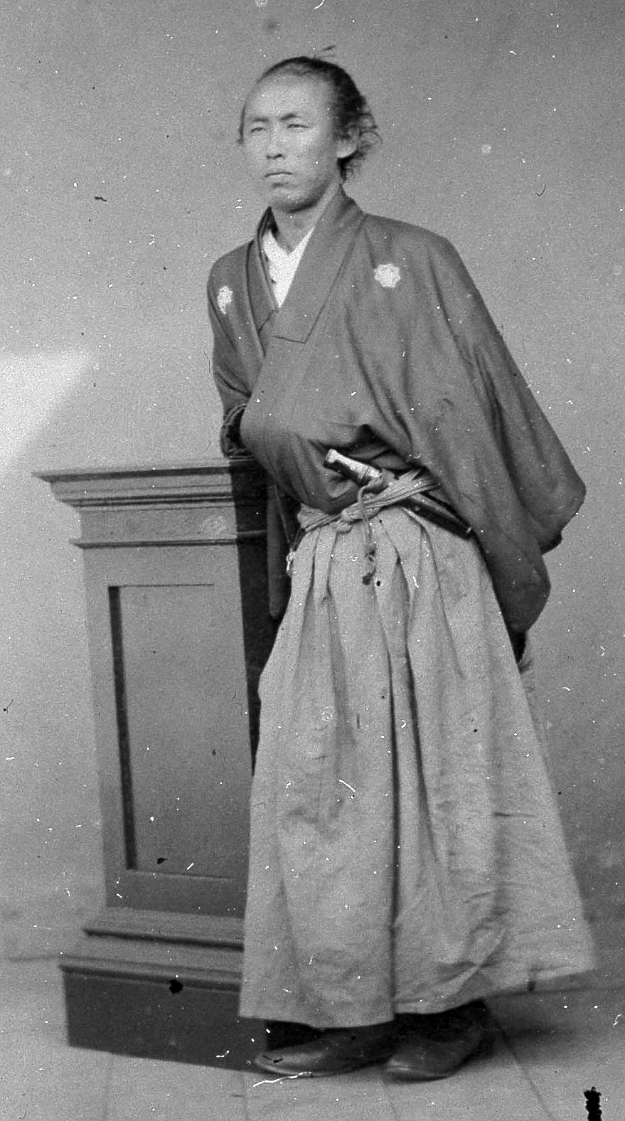 A photograph of Sakamoto Ryōma in Katsurahama, Kochi Prefecture. Wet plate photo.